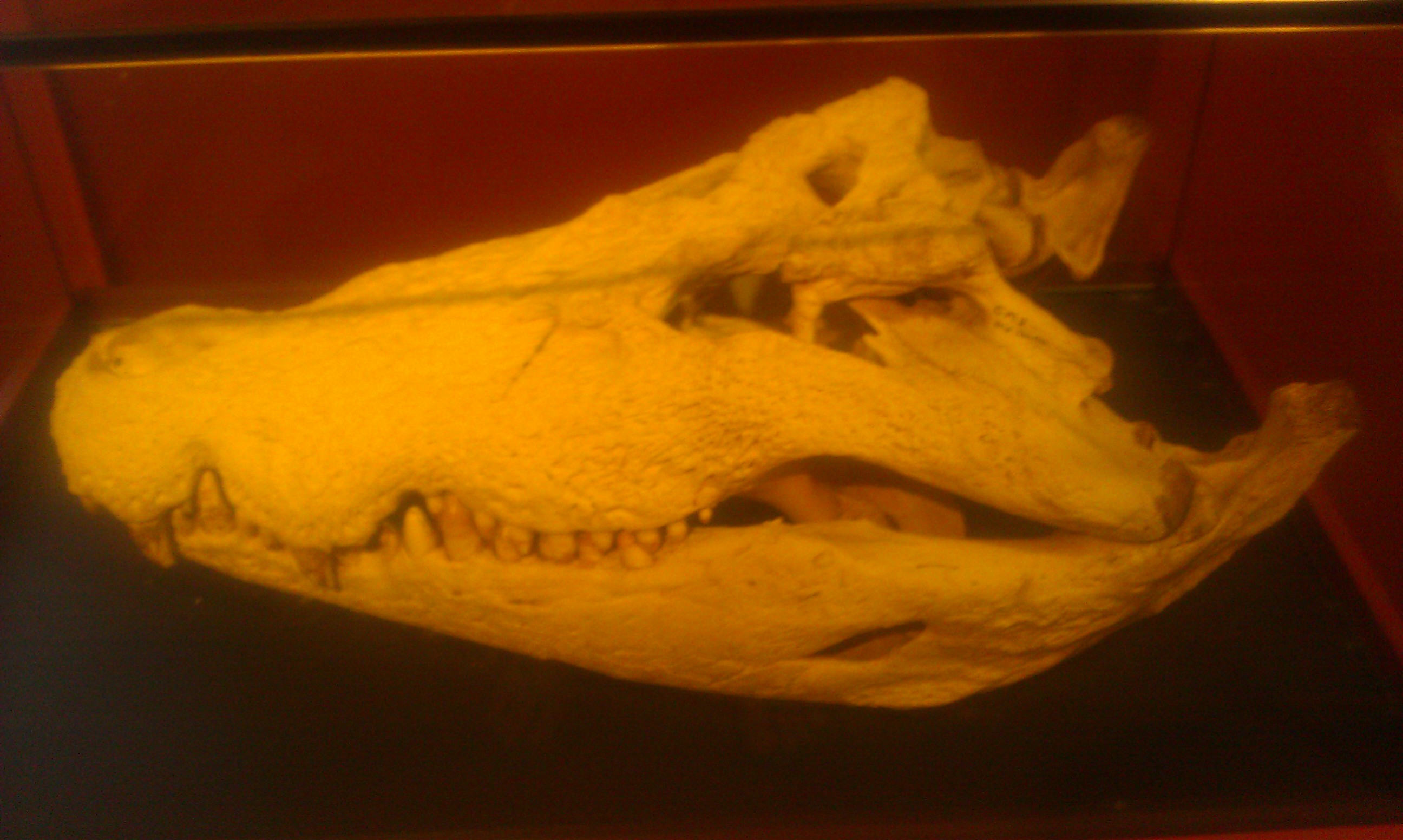 The skull of a saltwater crocodile nicknamed 'Old Charlie' at Crocosaurus Cove, Darwin, NT, Australia